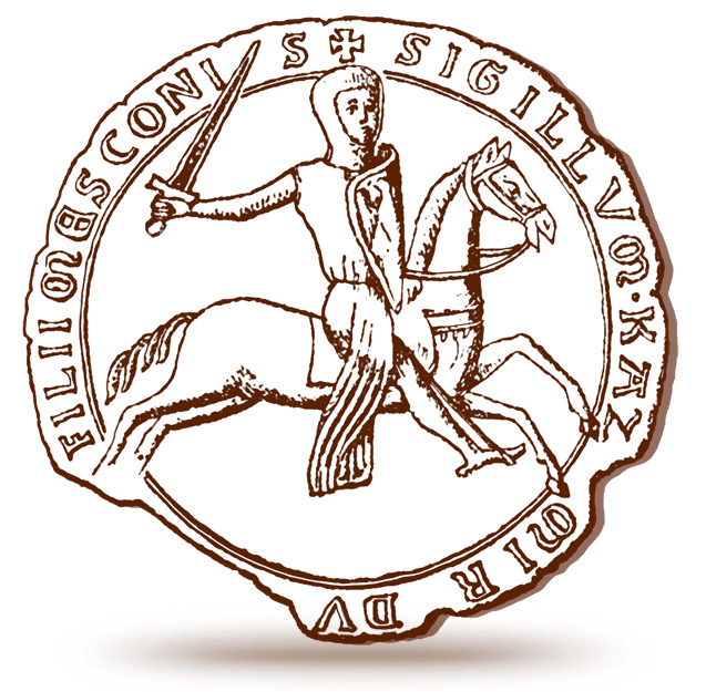 Kazimierz Opolski seal 1226